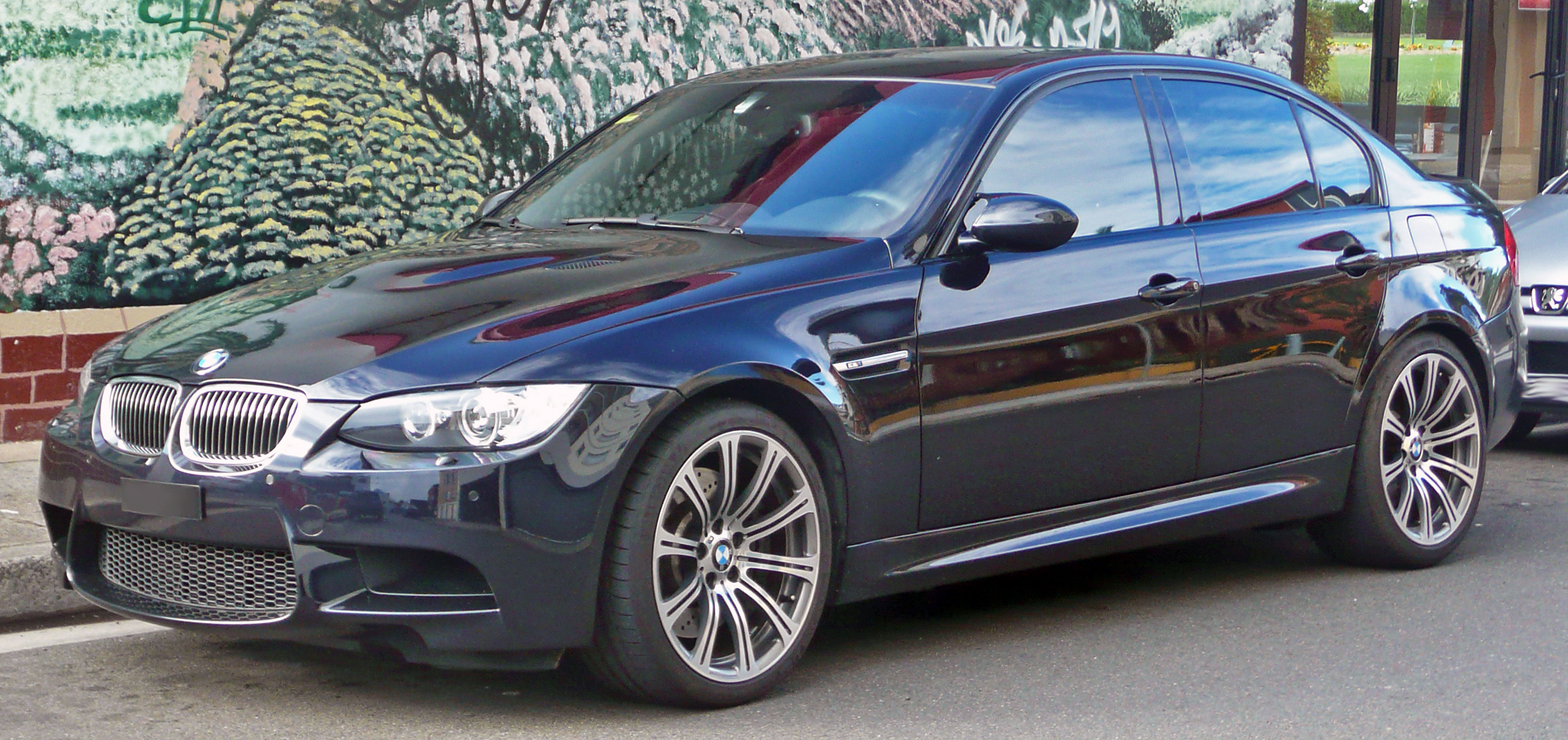 2008–2010 BMW M3 (E90) sedan. Photographed in Cronulla, New South Wales, Australia.